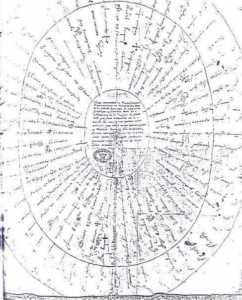 The Round Robin "Petition for Freedom" signed by 56 heads of Walloon families